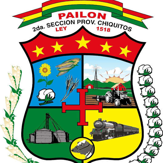 Escudo de pailon